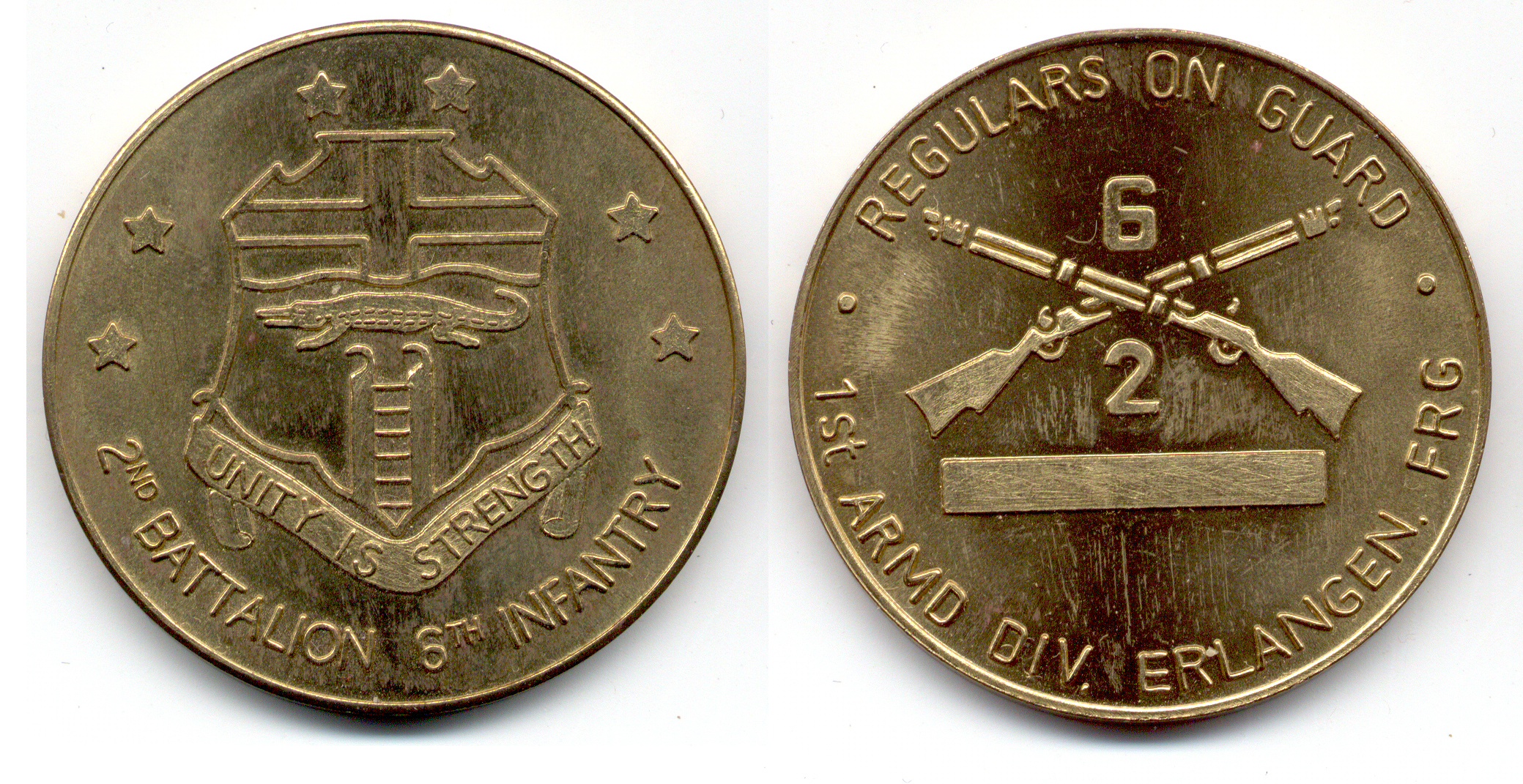 2nd Battalion, 6th Infantry Regiment Coin of Excellence presented to soldiers to spontaneously reward exceptional behavior between 1984-1992, Erlangen, Germany.